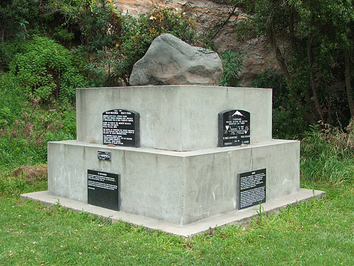 Photograph of memorial rongo stone, Andersons Bay, Dunedin, New Zealand.